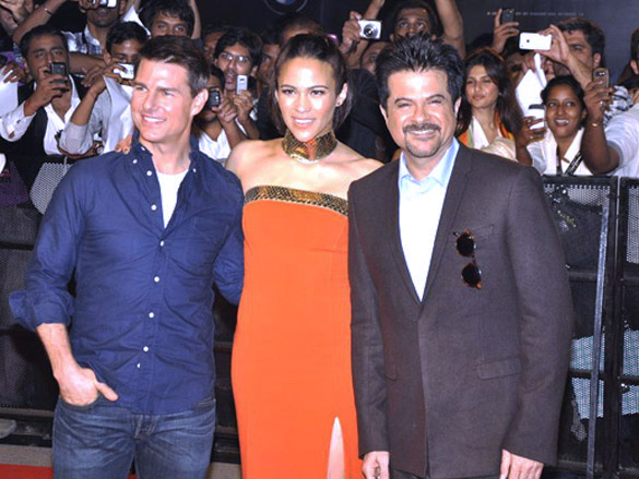 Photo Of Tom Cruise,Anil Kapoor From The Special Screening of 'Mission Impossible - Ghost Protocol'